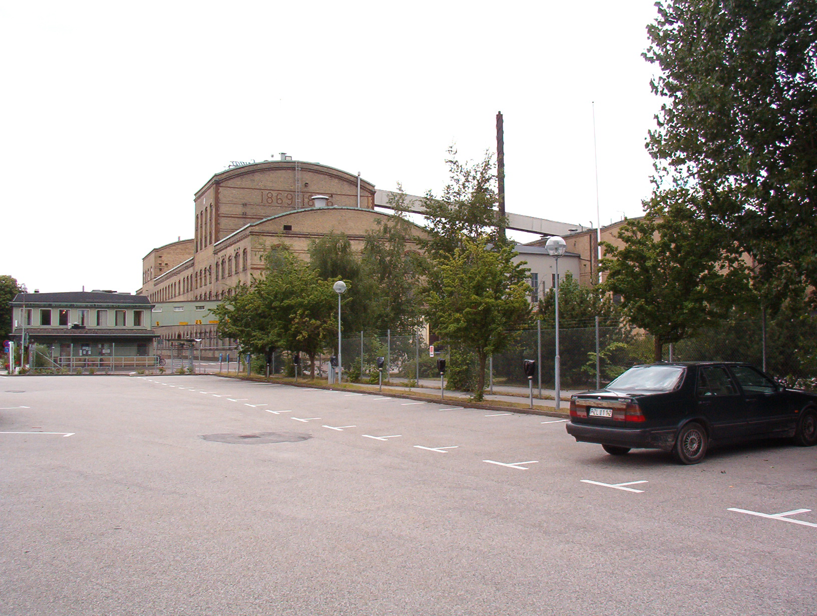 Arlöv sugar factory, in Arlöv, Burlöv Municipality, Sweden. date:July 2005